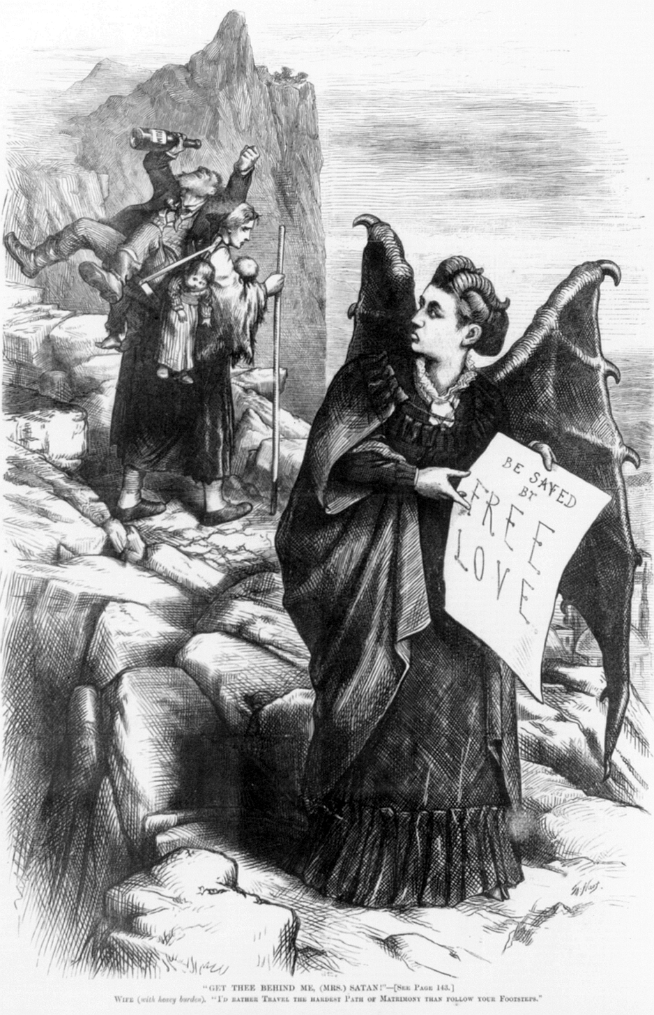 Caricature of American suffragist Victoria Woodhull (1838-1927) by Thomas Nast (1840-1902). "Get thee behind me, (Mrs.) Satan!" Wife, carrying heavy burden of children and drunk husband, saying to Mrs. Satan (Victoria Woodhull), "I'd rather travel the hardest path of matrimony than follow your footsteps." Mrs. Satan holds sign "Be saved by free love." Illustration in "Harper's Weekly", v. 16, February 17 1872, p. 140.